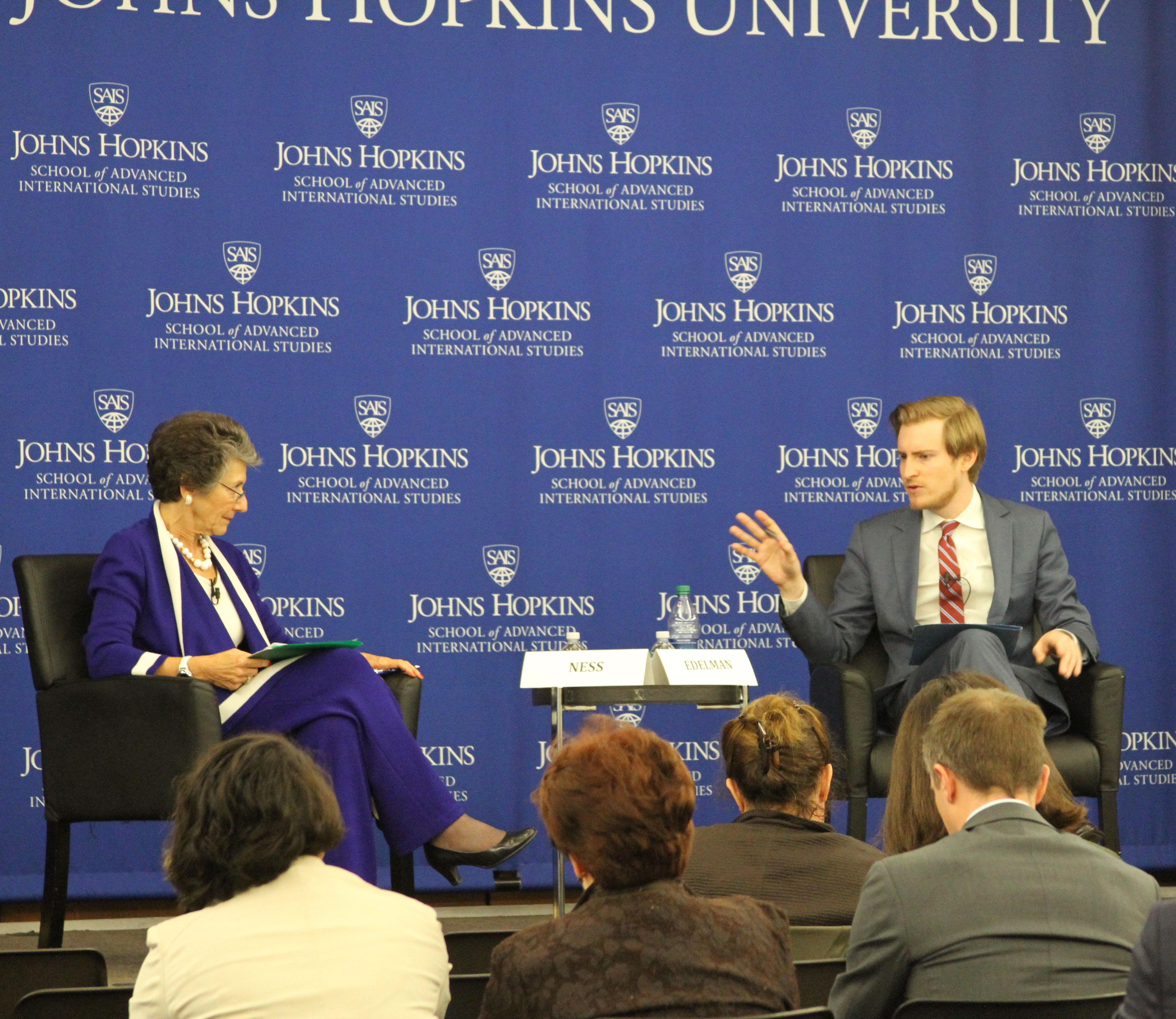 R. David Edelman & Susan Ness in Conversation at the Johns Hopkins School of Advanced International Studies (SAIS)